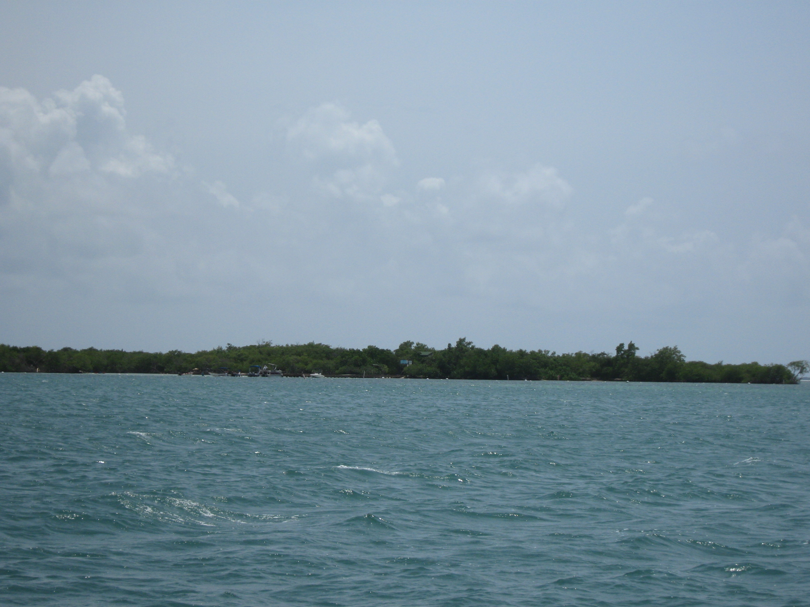 Cayo Aurora, Cayos de Caña Gorda, Guanica, southwestern Puerto Rico, from ferry